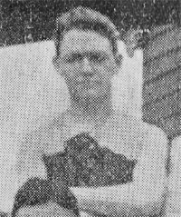 Charlie O'Connor from 1902–1904